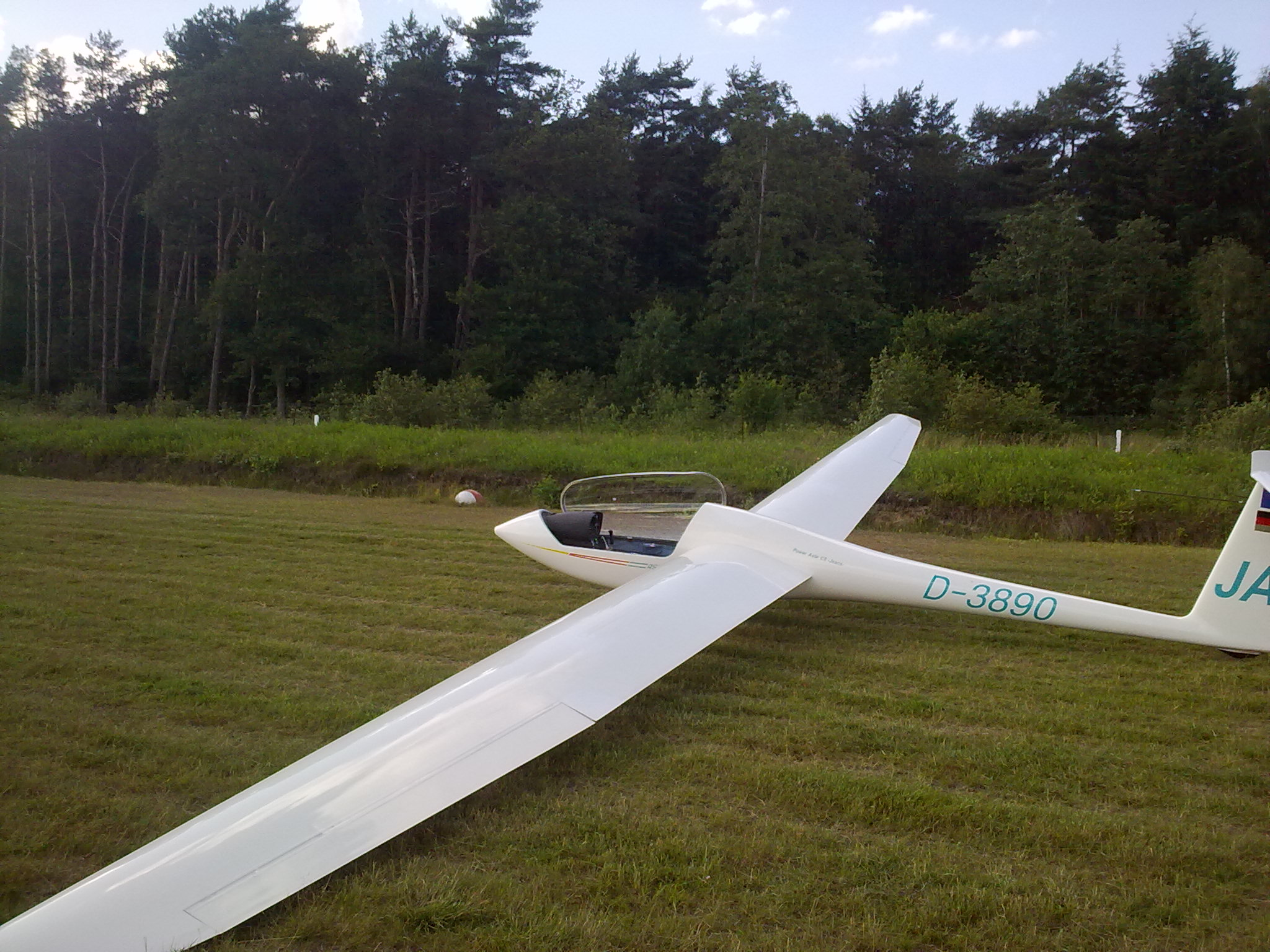 The Astir CS Jeans at the airfield of Rostrup, June 2011